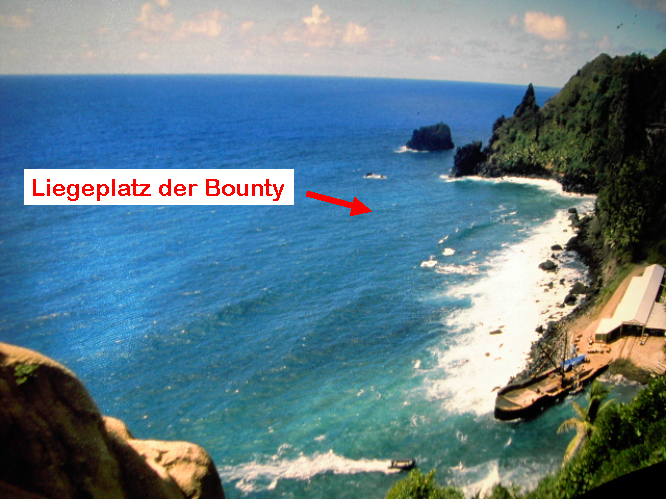 Place of discovery of the wreck of the Bounty in the Bounty Bay of Pitcairn Island